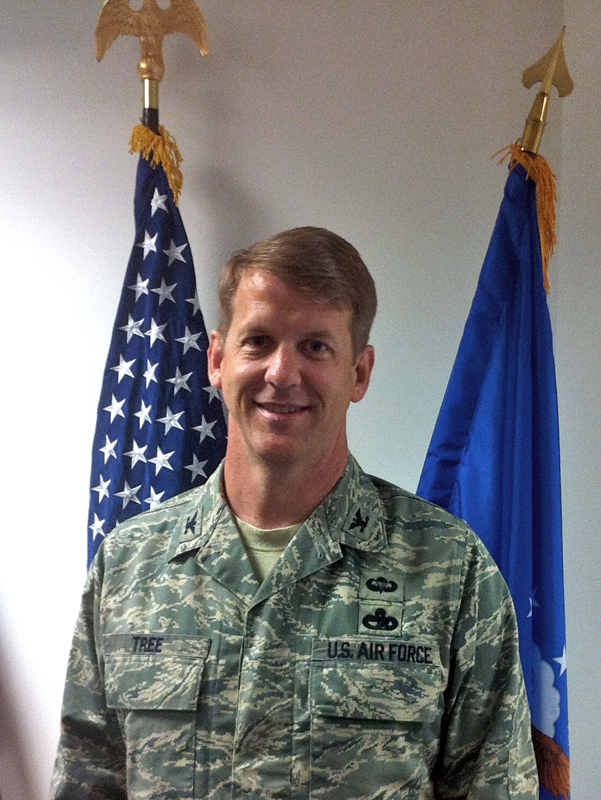 Col John Tree in Airman's Battle Uniform at Pentagon